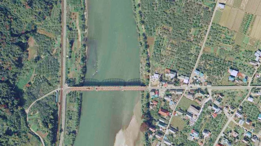 Tategahana Bridge (Nagano - Nakano).